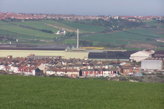 Skinningrove Works dominate this view of Carlin How in the foreground.